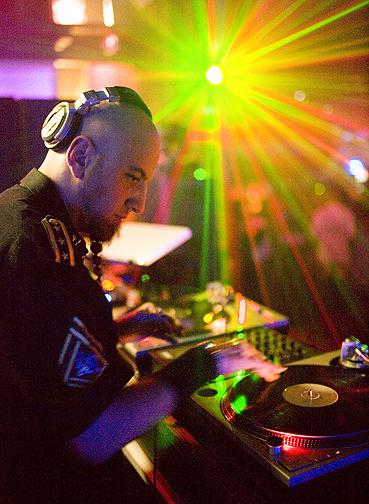 Shavo spinning live in an LA club